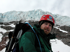 Steve Chappell, American aerospace engineer and NEEMO 14 aquanaut, climbing Mount Rainier. From NASA photo in public domain (caption on source page reads "Image credit: NASA").